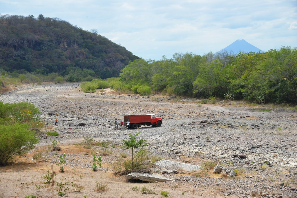 El Río Sinecapa en El Tamarindo, El Jicaral, Nicaragua.